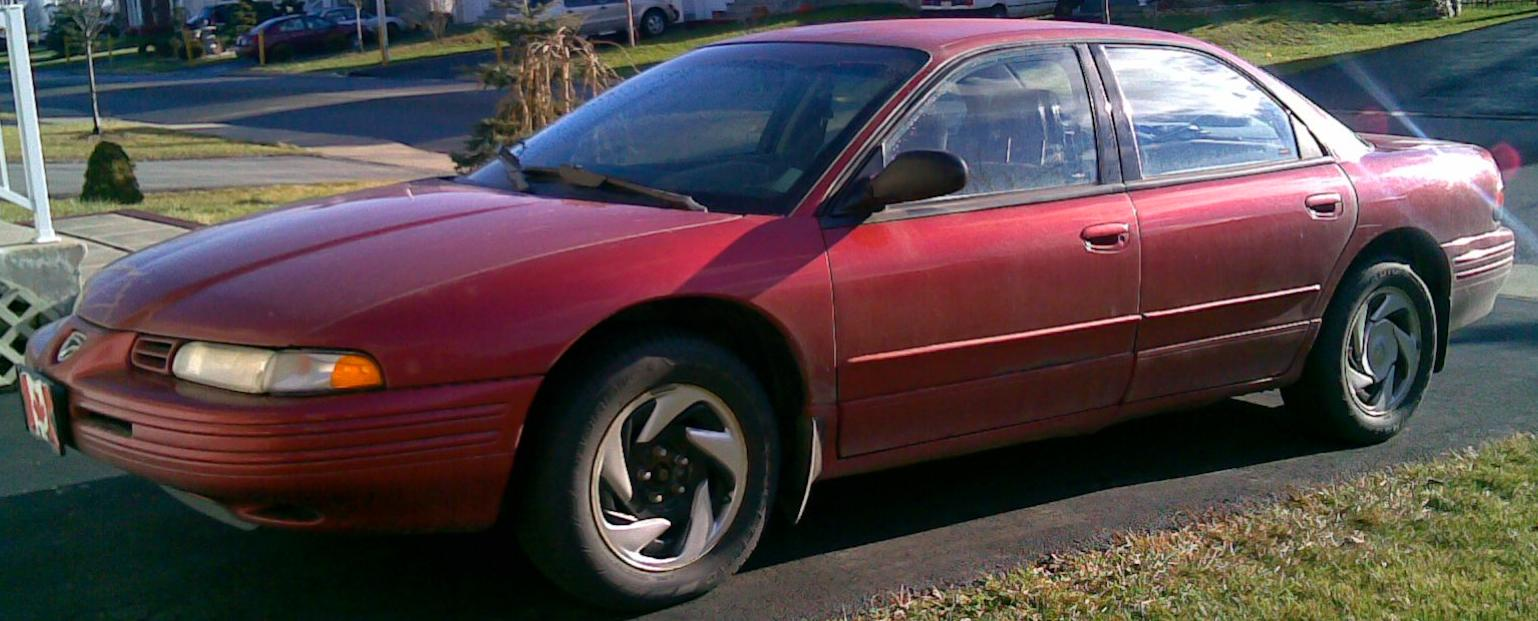 1993-1997 Eagle Vision photographed in Montreal, Quebec, Canada.